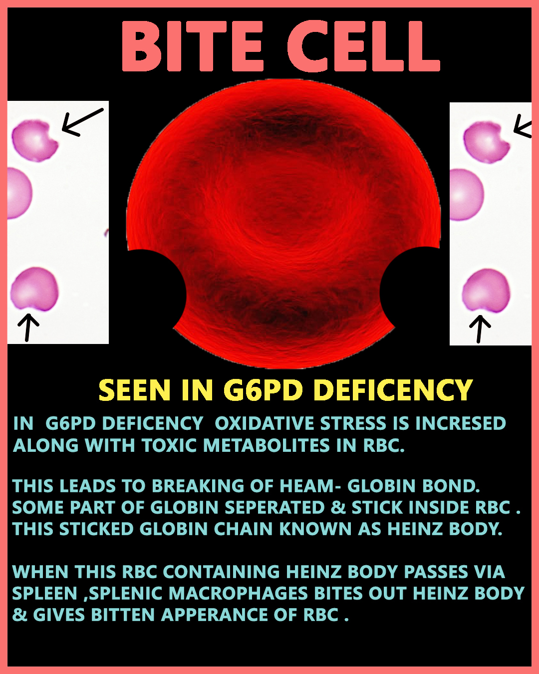 BITE CELLS G6PD DEFICIENCY. this bite mark on RBC is actually due to the removal of RBC debris. by spleen. spleen sense this debris and makes bite on RBC